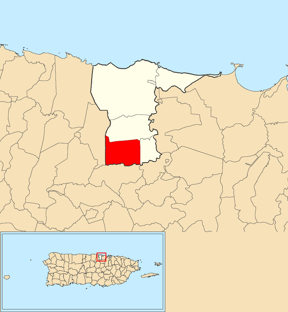 Espinosa, Dorado, Puerto Rico locator map